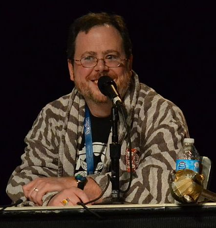 Andy Price at the 2014 BronyCon Convenction